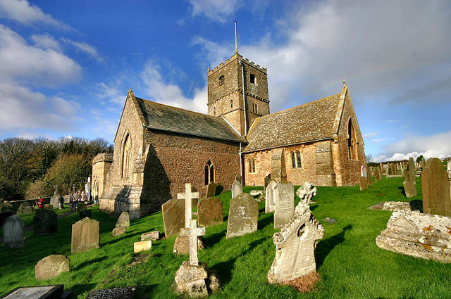 St Andrew's parish church, Clevedon, Somerset, seen from the southeast, showing the chancel (right) and south transept (left)